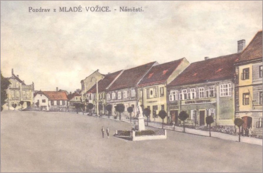 Mladá Vožice, Czech Republic, 1932 postcard